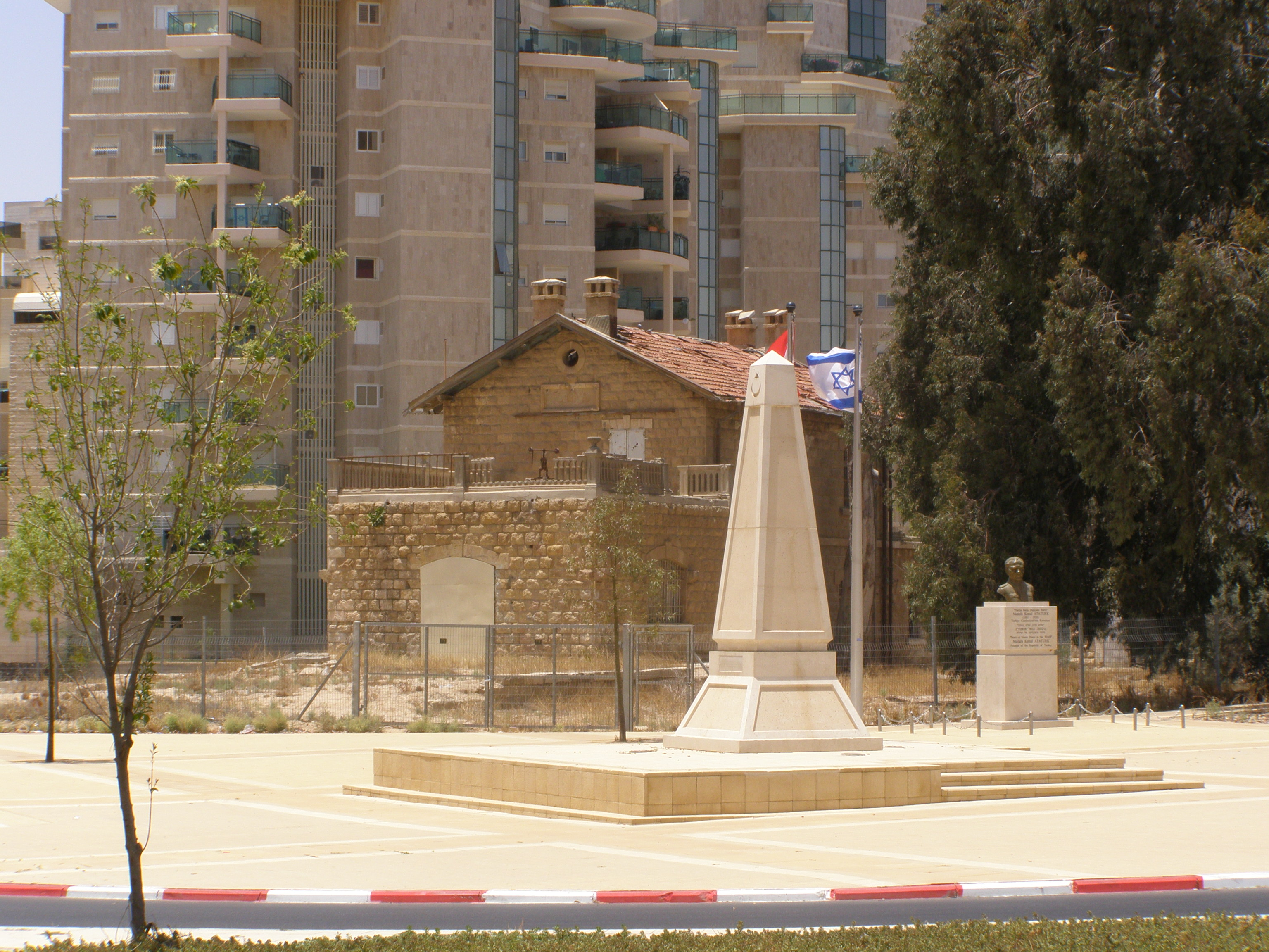 Beersheba, Turkish railway station